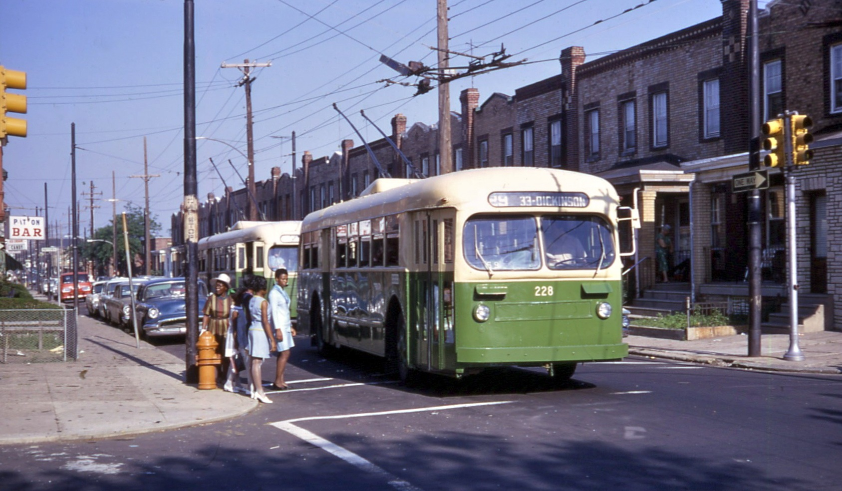 Two Philadelphia ACF-Brill trolley buses westbound on Tasker Street at 32nd Street, along route 29 Tasker-Morris.